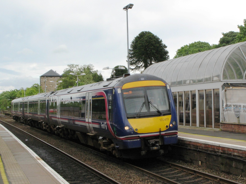 170411 calls at Linlithgow station on its way from Edinburgh to Glasgow.